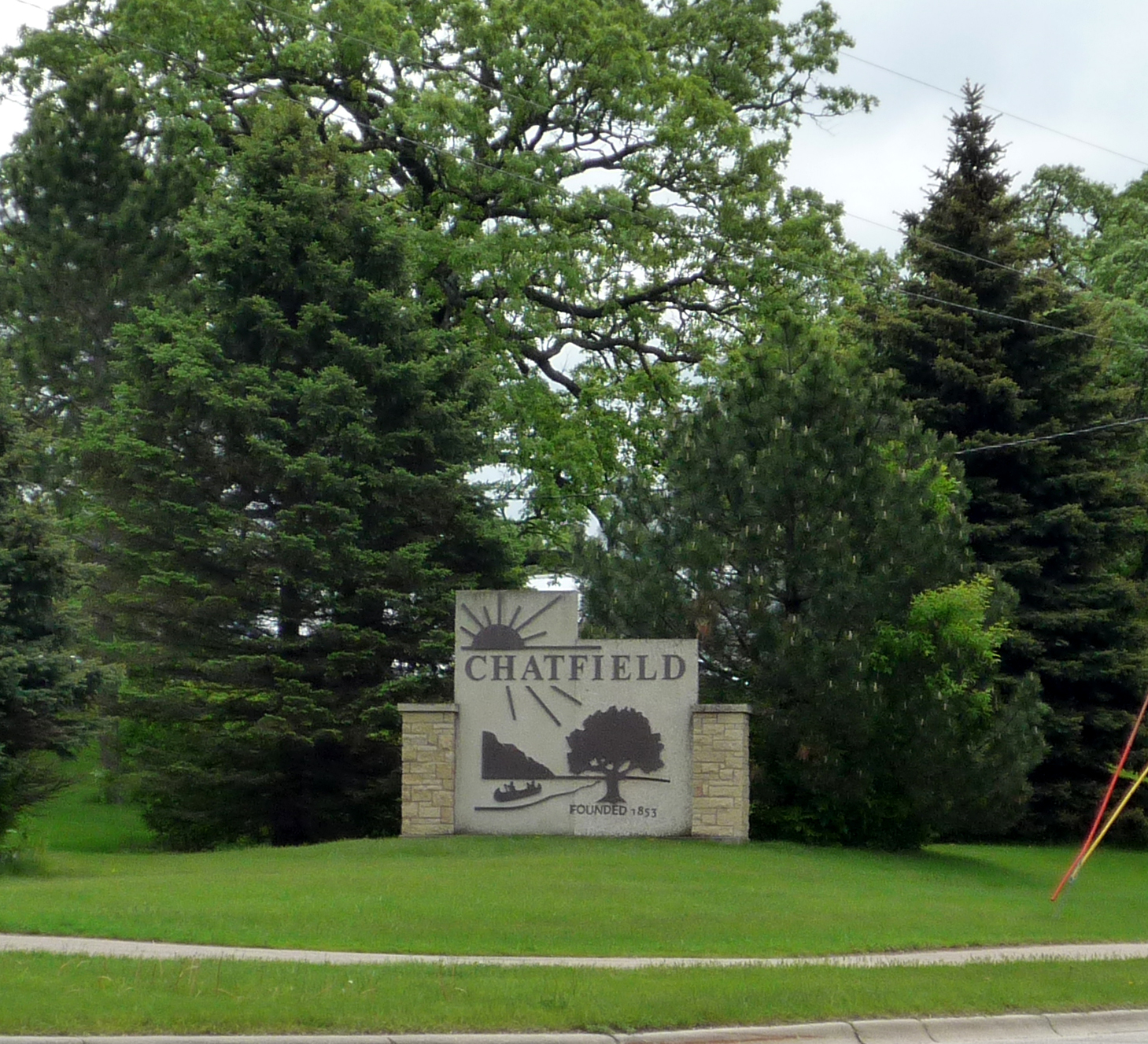 Welcome sign, Chatfield, Minnesota, USA.